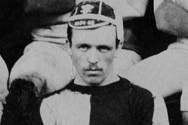 William "Buller" Stadden, international rugby union player.